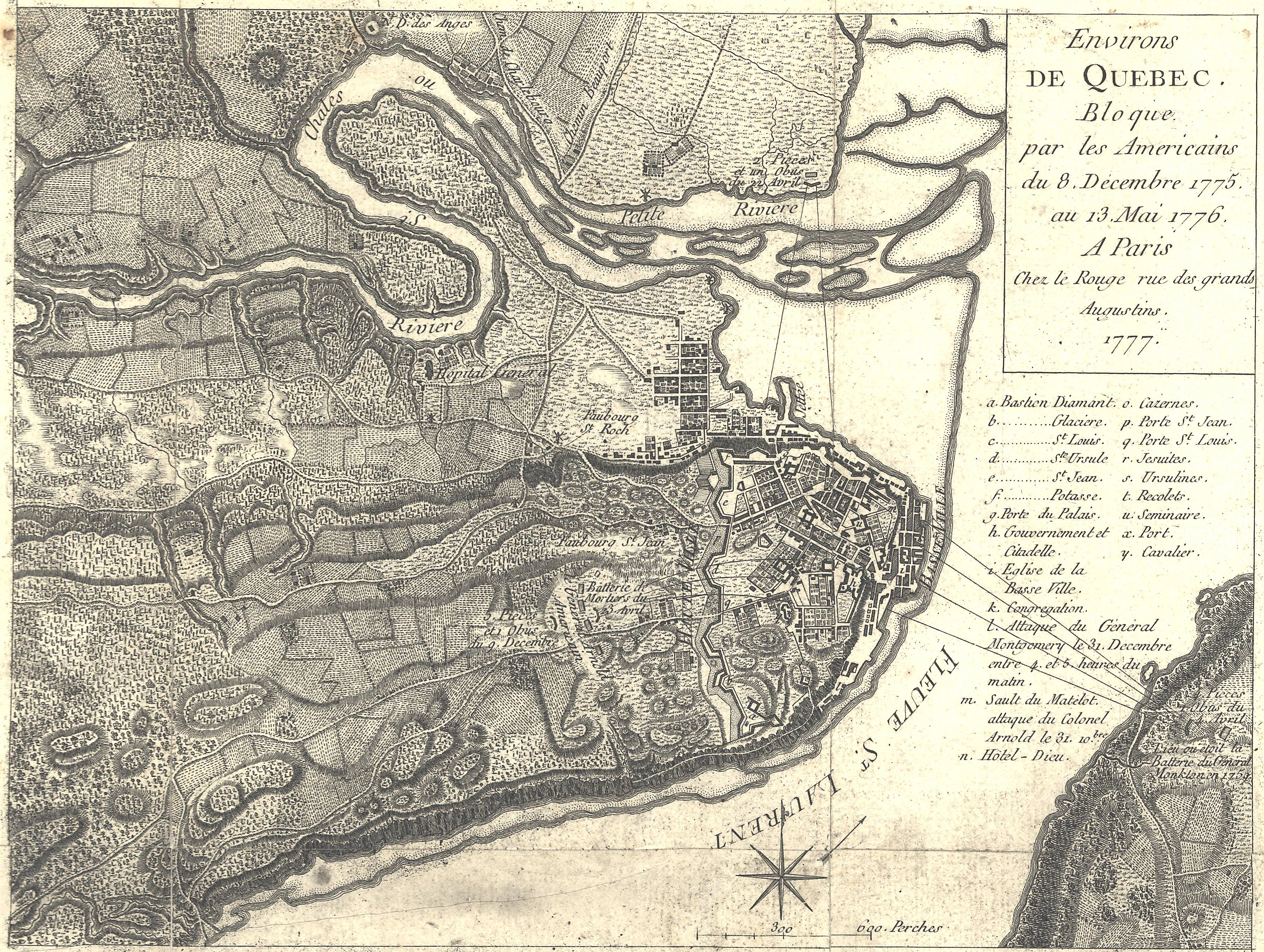 This is a 1777 French map showing the Battle and Siege of Quebec, December 1775 to May 1776. It has had its border cropped, and had slight contrast and brightness adjustments made. The caption reads: Environs de Quebec Bloque par les Americains du 8. December 1775 au 13. Mai 1776. Translated: Quebec area besieged by the Americans, December 8, 1775 to May 13, 1776.